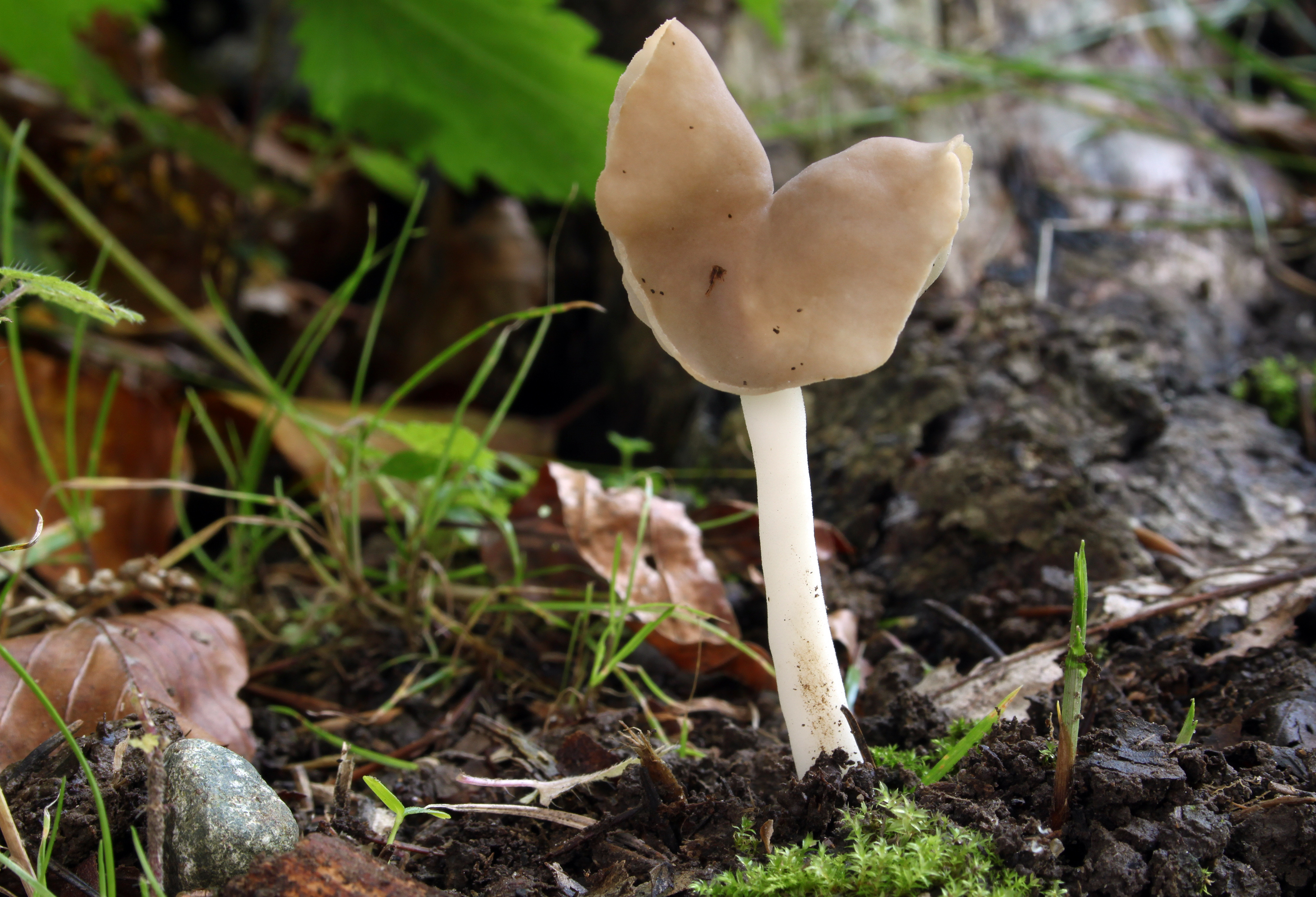 Helvella ephippium, Family: Helvellaceae, Location: Germany, Biberach an der Riss